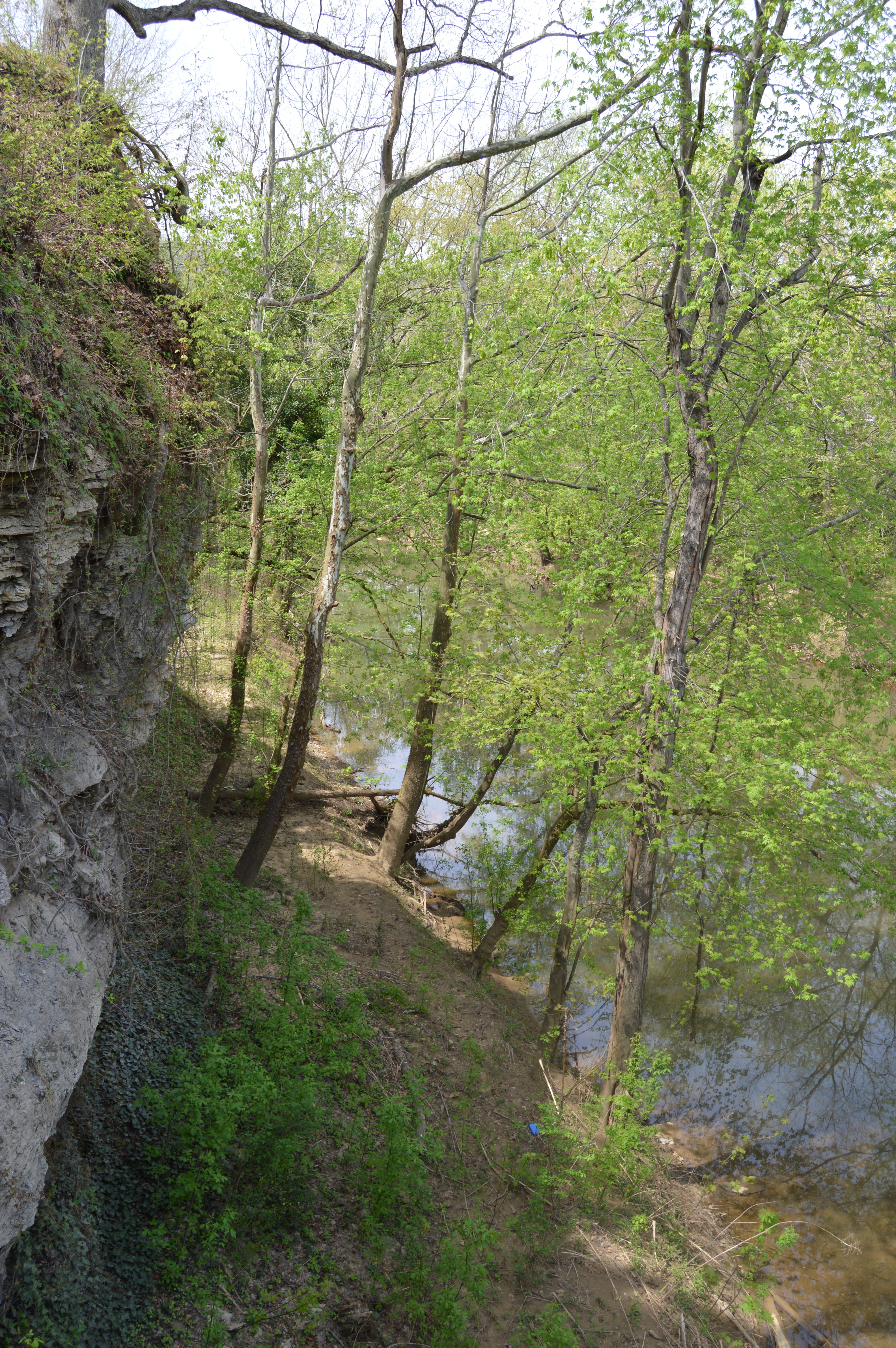 A small cliff on the southern side of Paint Creek at Paintsville, Kentucky, United States, seen looking west from the Broadway bridge.